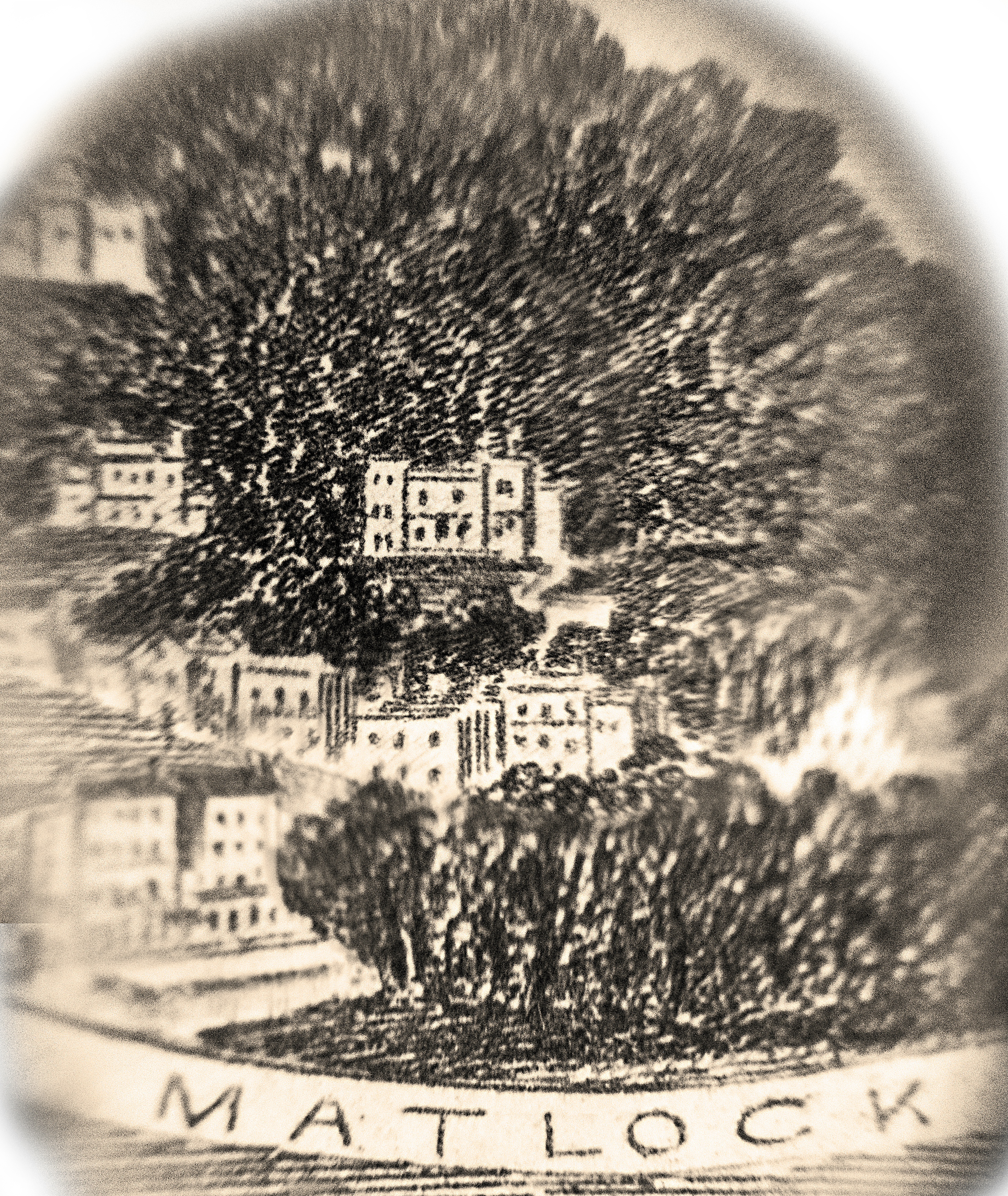 What can be seen through the little lens on the top of the egg, it seems to be an etching that is deposited inside the egg, along with a real dried small flower (cannot be seen on this picture). "Present From Matlock", Alabaster Peep Egg with 3 built-in miniature pictures of Matlock, Chatsworth, and Chatsworth Bridge, tiltable on an axis (GB, middle of 19th century) This is a file created at the museum: FOMU Photo Museum in Antwerp